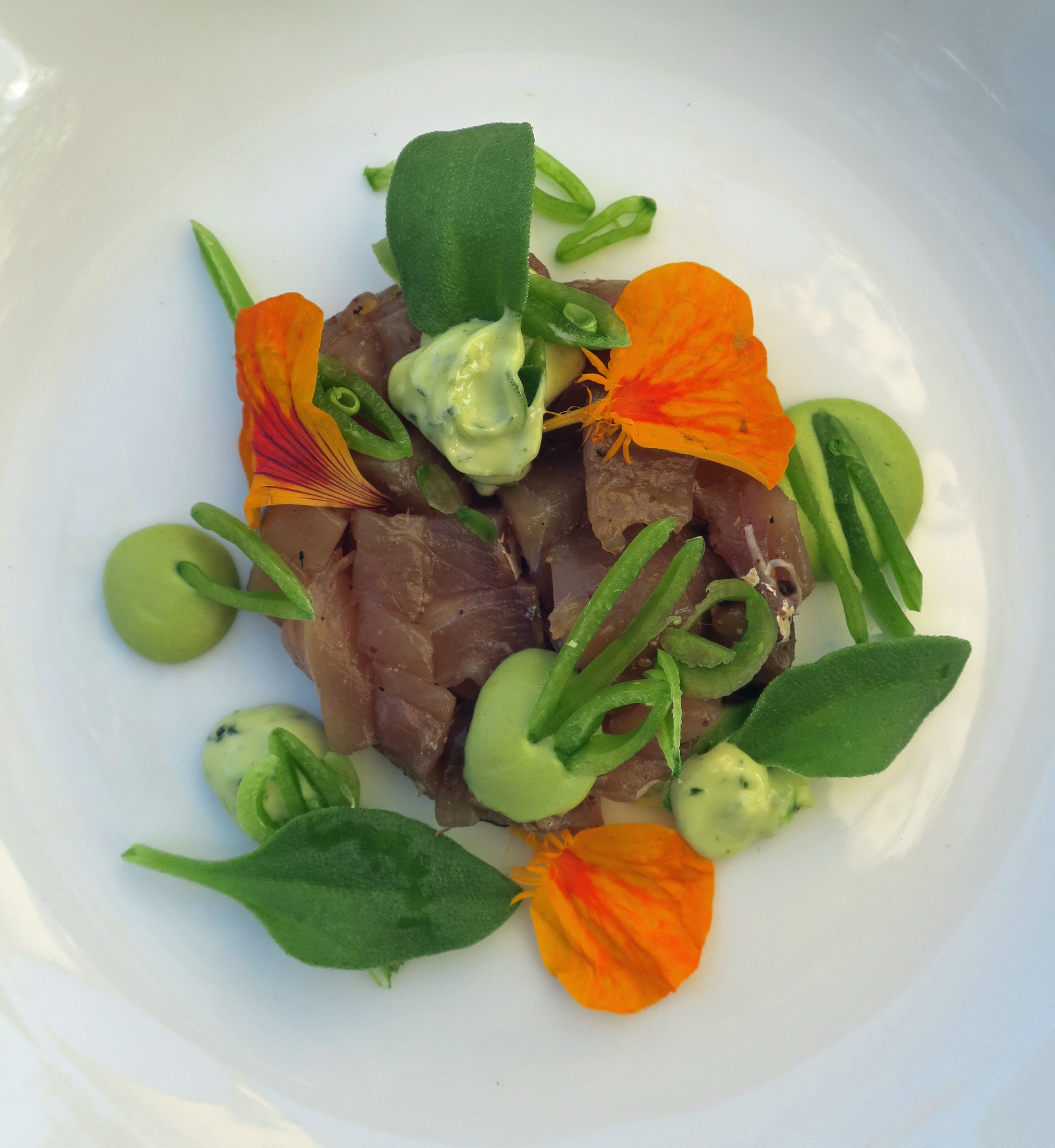 Yellowtail Jack, Snap Peas, Ice Lettuce, Sorrel at the Farm-to-Table Dinner at Kendall-Jackson Wine Estate & Garden